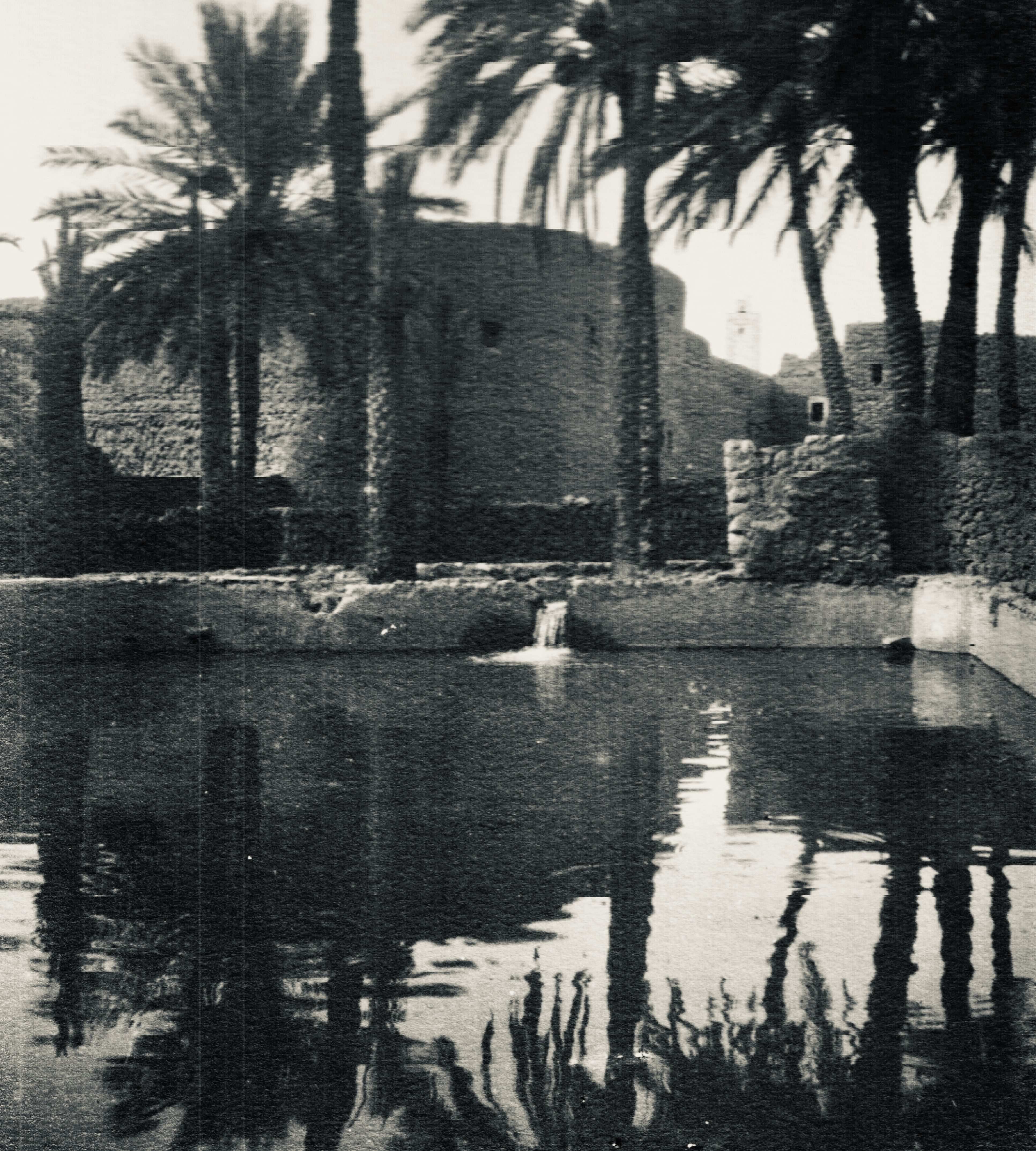 Views and photos of the Sahara desert and other regions in Africa. Water source in Zenaga, Figuig, Morocco.